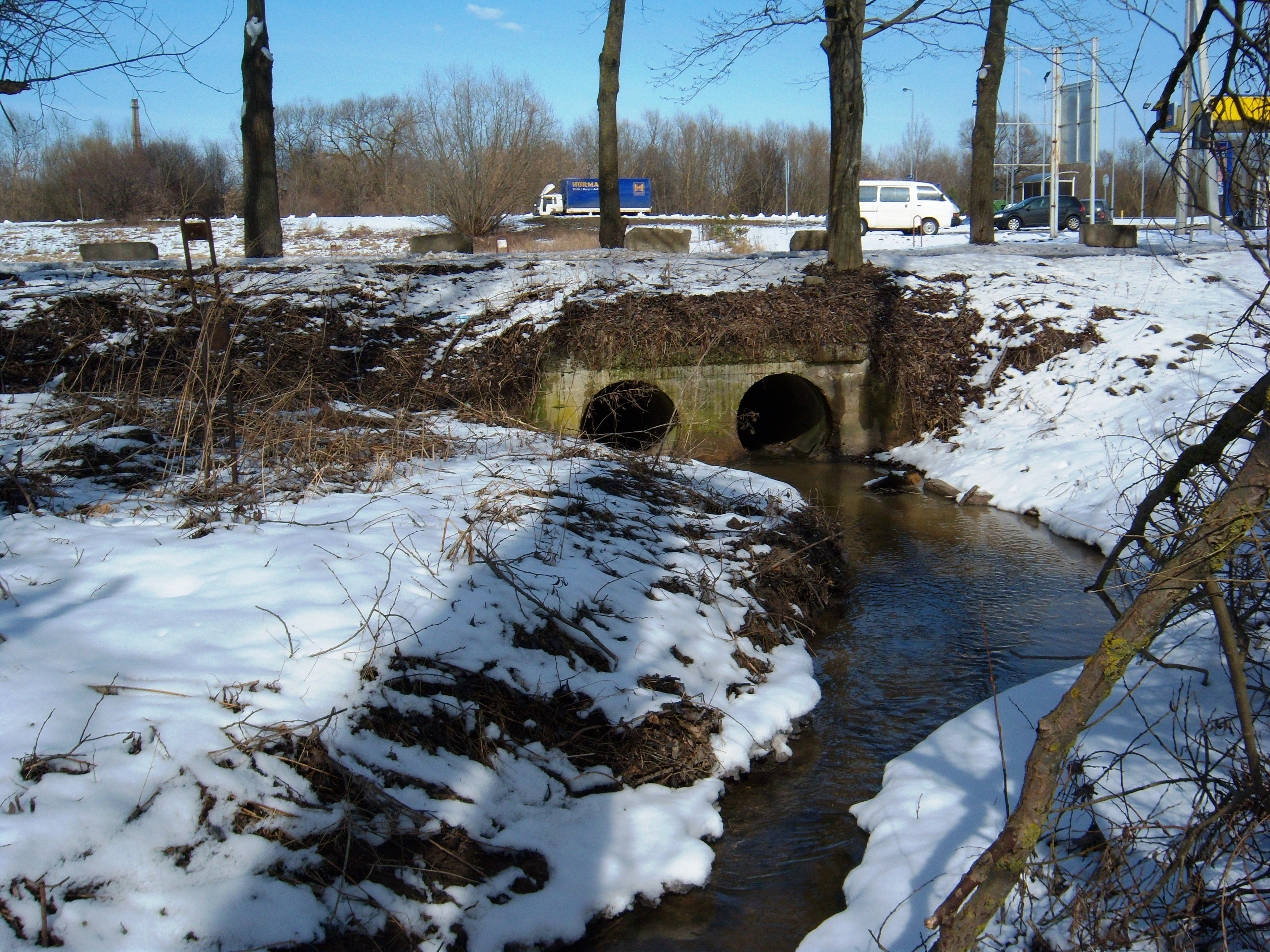 Vėžpienis stream in Marvelė, Kaunas, Lithuania